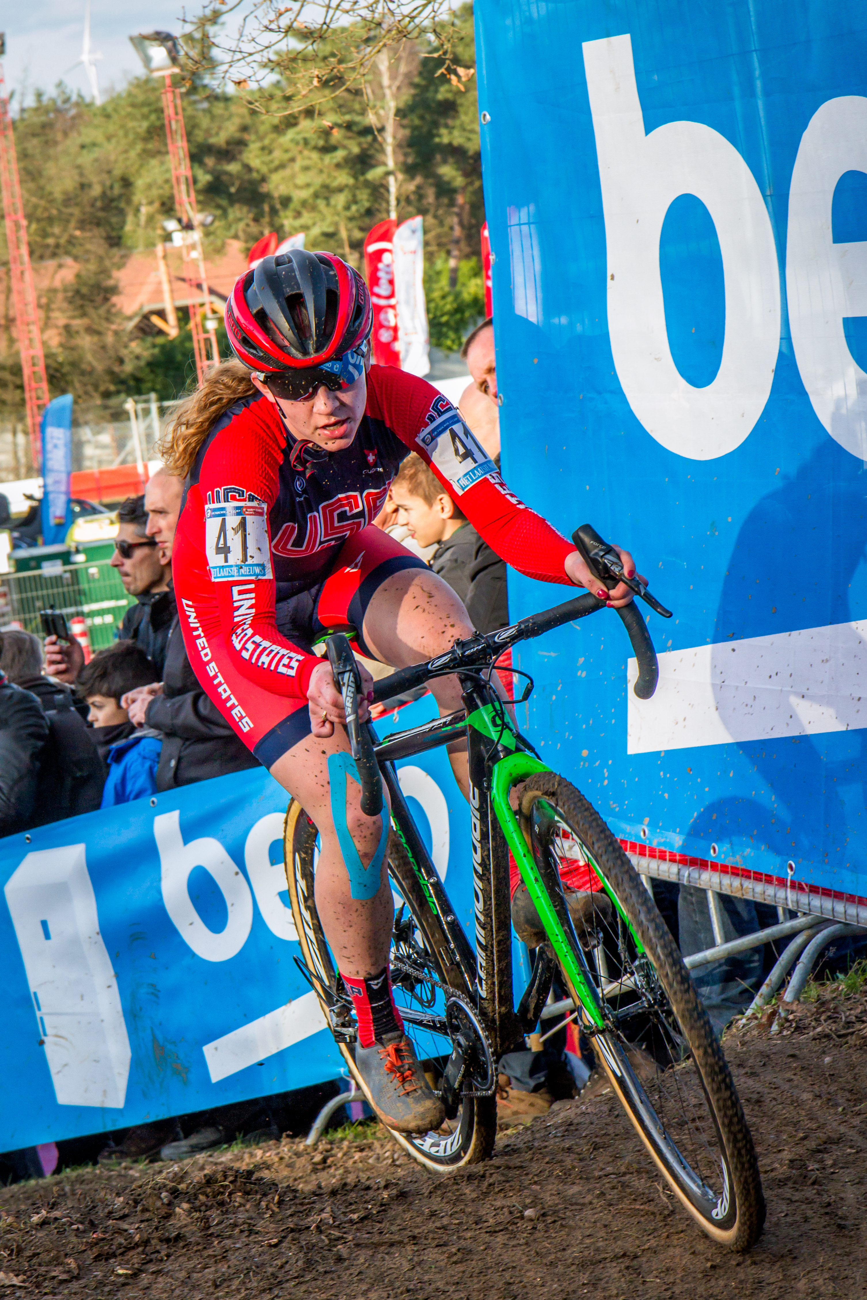 Emma White (USA). UCI Cyclocross World Cup, Heusden-Zolder, Belgium, 2015.